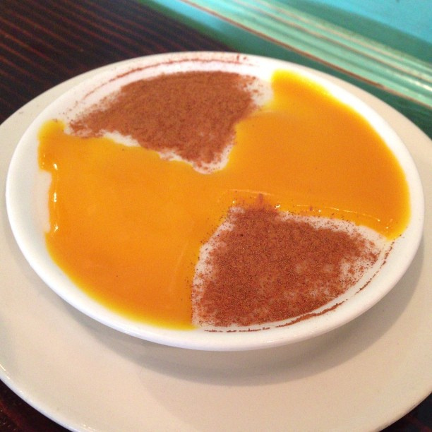 Tembleque - Creamy coconut pudding with mango sauce and cinnamon